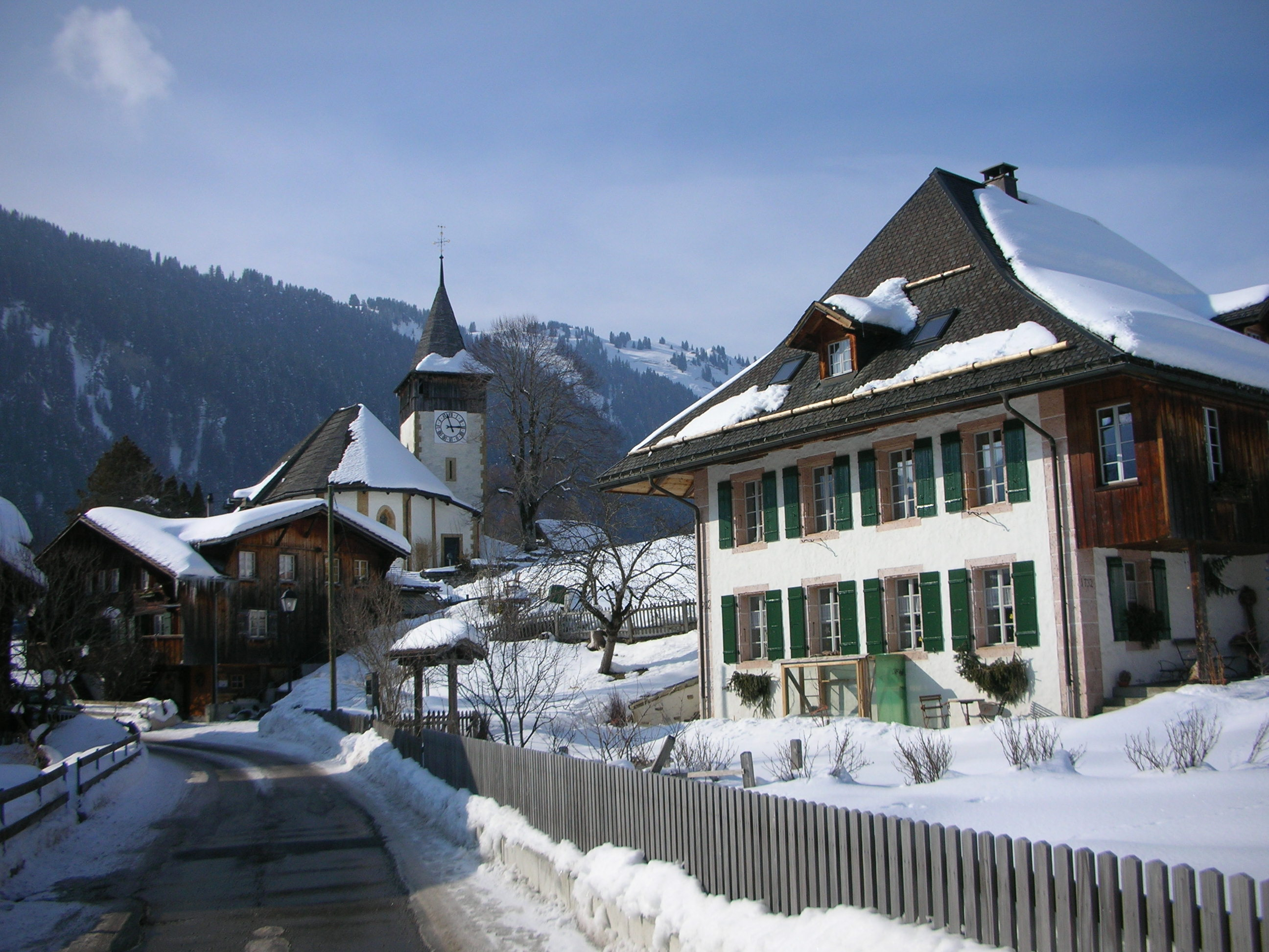 The church in the center of the village Lauenen (Switzerland) in winter.